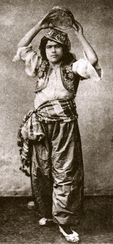 Ottoman Köçek (Dancing boy) with a tambourine.